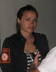 Rose Simpson, Santa Clara Pueblo-descent, ceramic sculptor and singer, daughter of Roxanne Swintzell.